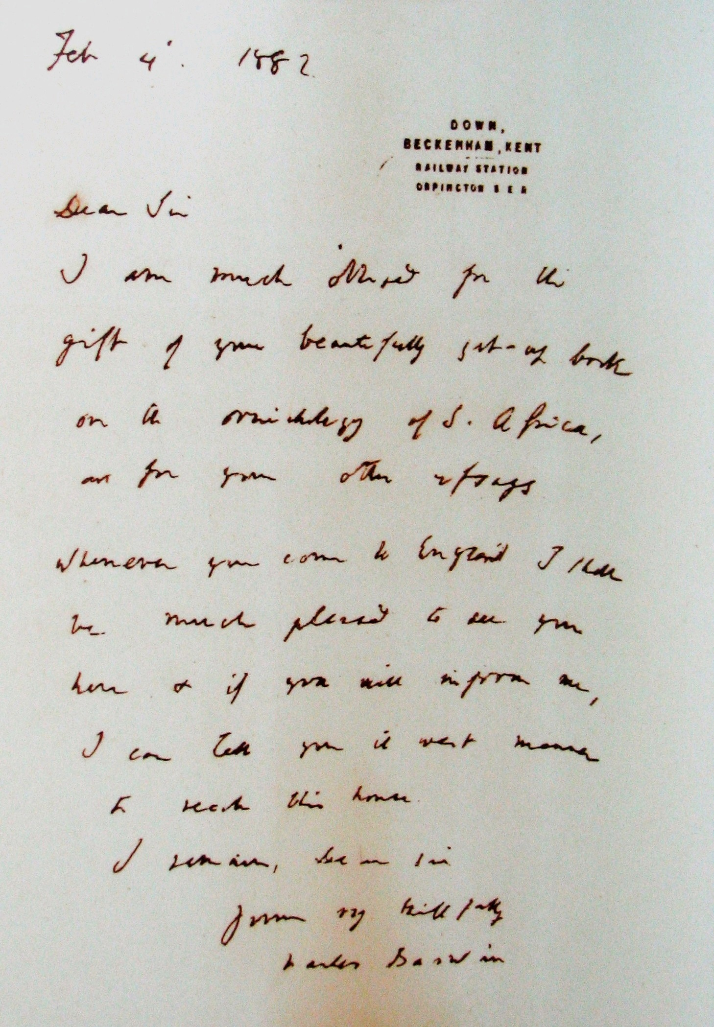 A letter from 22 February 1882 by Charles Darwin to the Czech traveller Emil Holub. Photo of a reproduction.